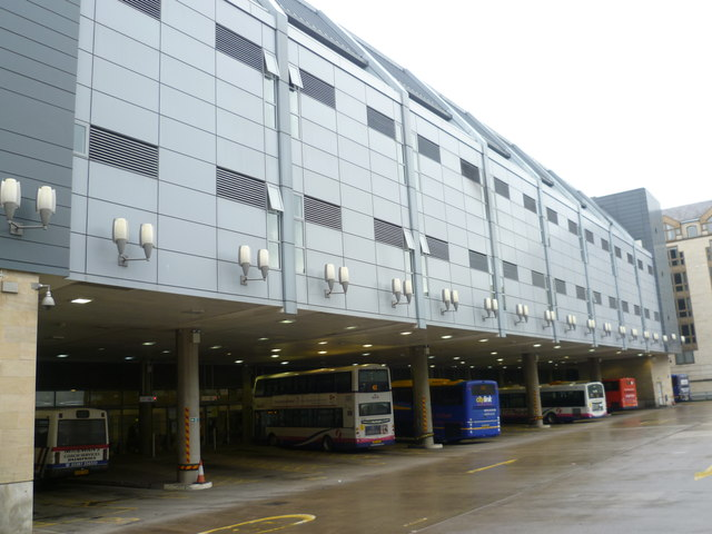 Edinburgh Bus Station bays. NT2574 :: Edinburgh Bus Station bays, near to Edinburgh, Great Britain